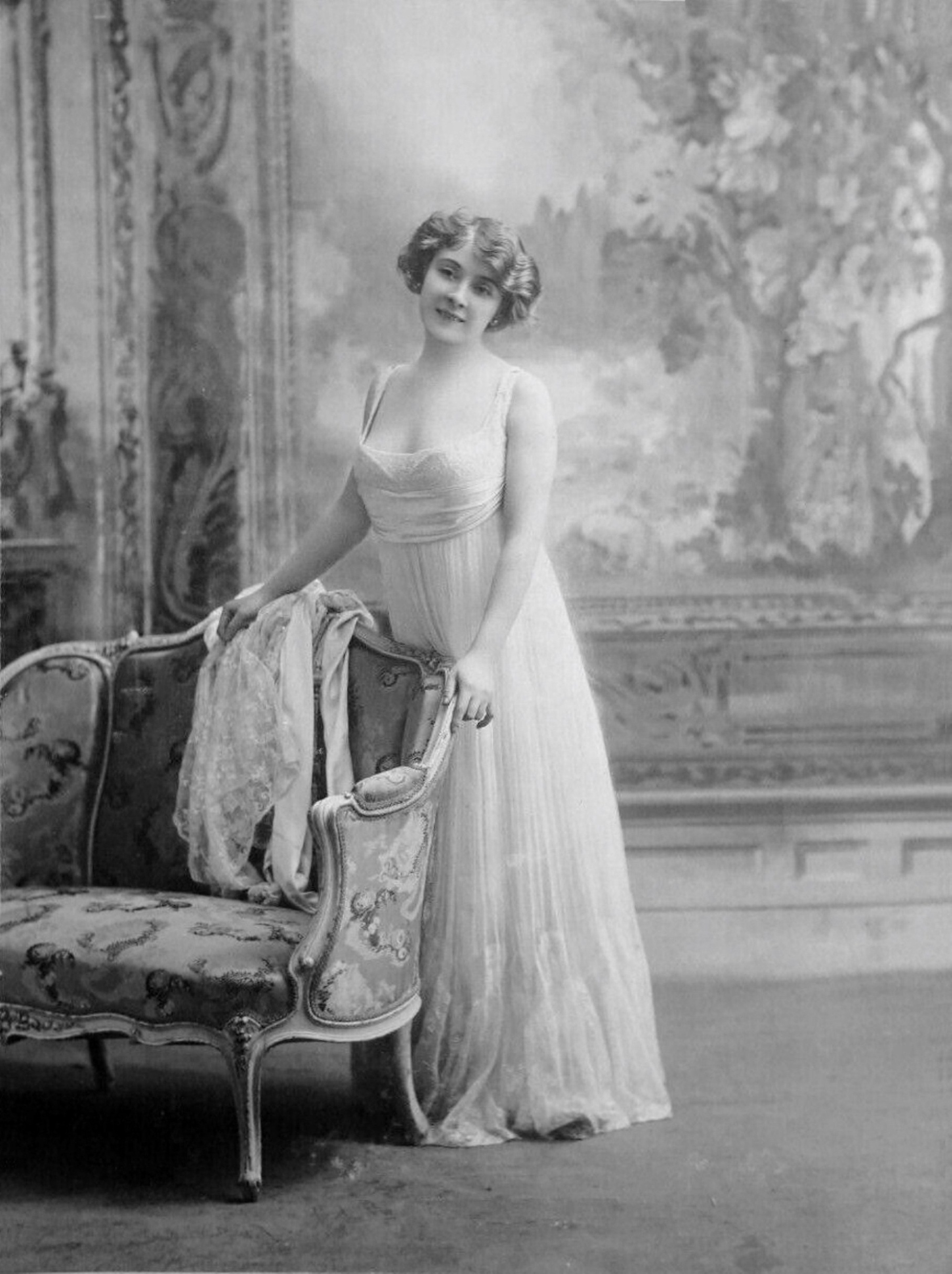 Amélie Diéterle at her debut as an actress at the Théâtre des Variétés. Period silver print and pasted on a cardboard 26.5 x 33.5 cm, at the end of the nineteenth century, probably in 1892, by photographer Nadar.Amélie Diéterle is a French actress born in Strasbourg on 20 February 1871 and died in Cannes on 20 January 1941. She was legitimated in Paris in 1892 by Captain Louis Laurent, Knight of the Legion of Honor. Amélie Diéterle married in Vallauris on 16 June 1930 with André Simon (1877-1965). Amélie Diéterle plays mainly at the Théâtre des Variétés in Paris during the Belle Époque.